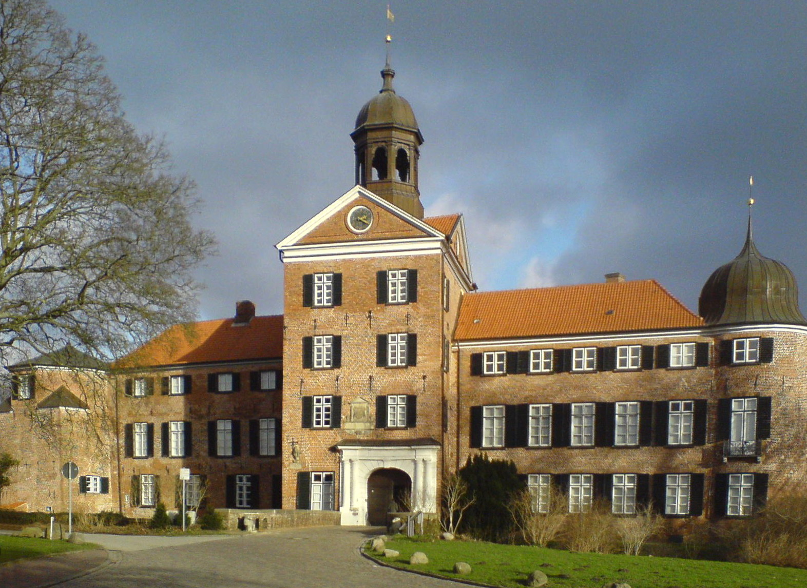 Description=Eutiner Schloss Source=myself Date=02.2007 Author=PodracerHH 19:44, 4 February 2007 (UTC)